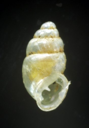 The landsnail Carychium minimum